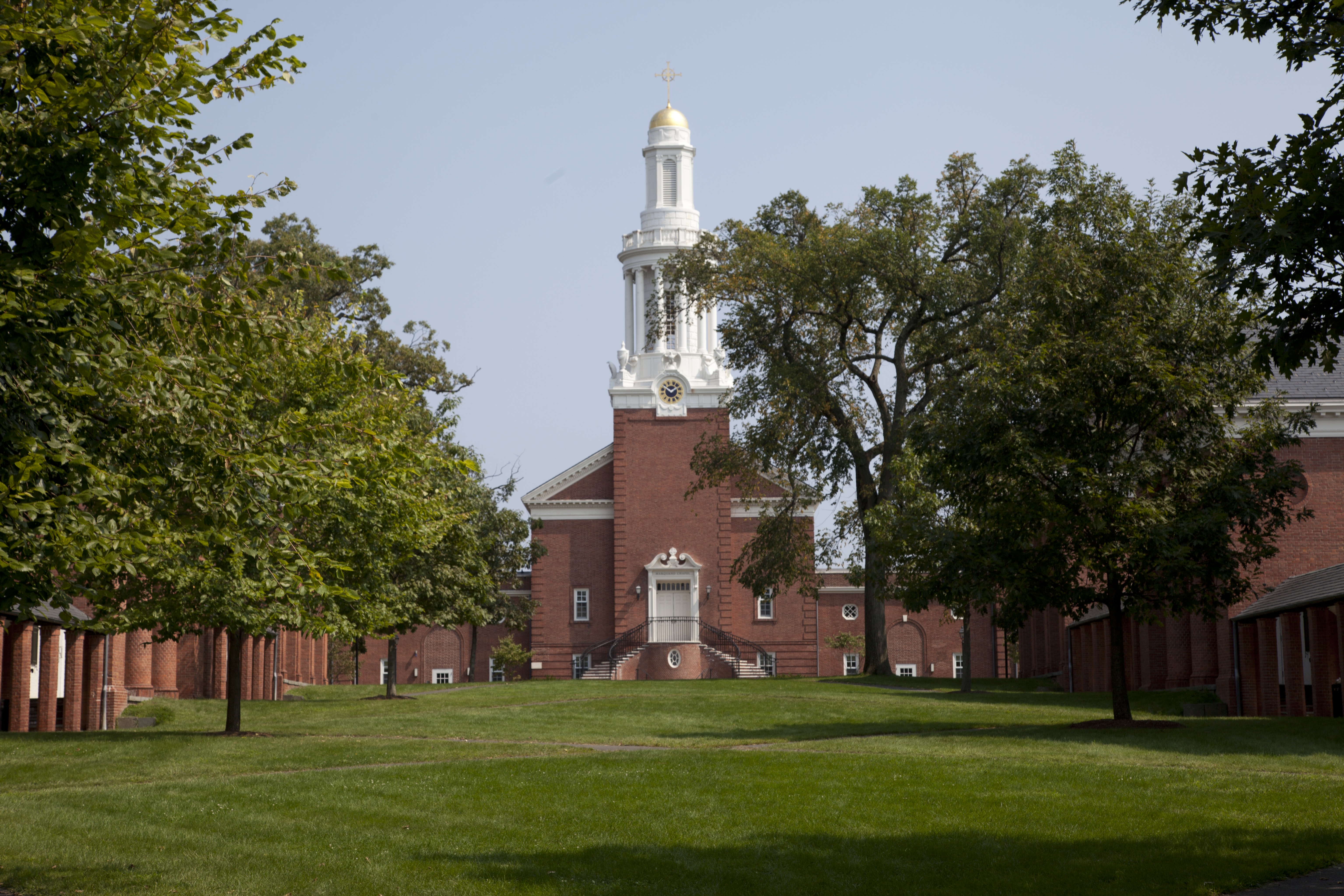 Sterling Memorial Quadrangle and Marquand Chapel, Yale Divinity School, New Haven, CT